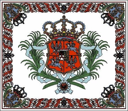 The standart of the Kadettenkorps.